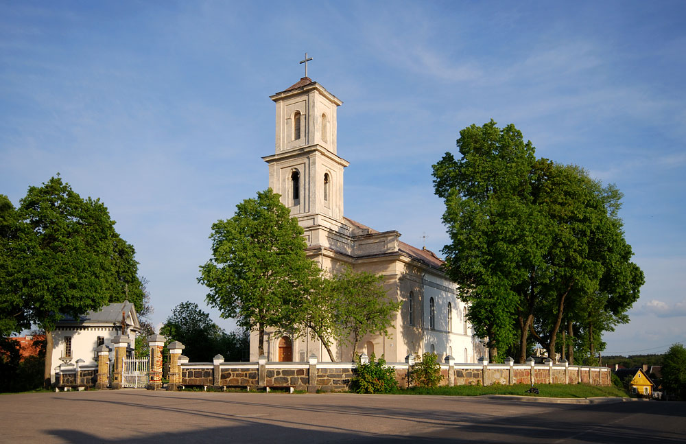 Church of St. Michael the Archangel in Nemencine, Lithuania